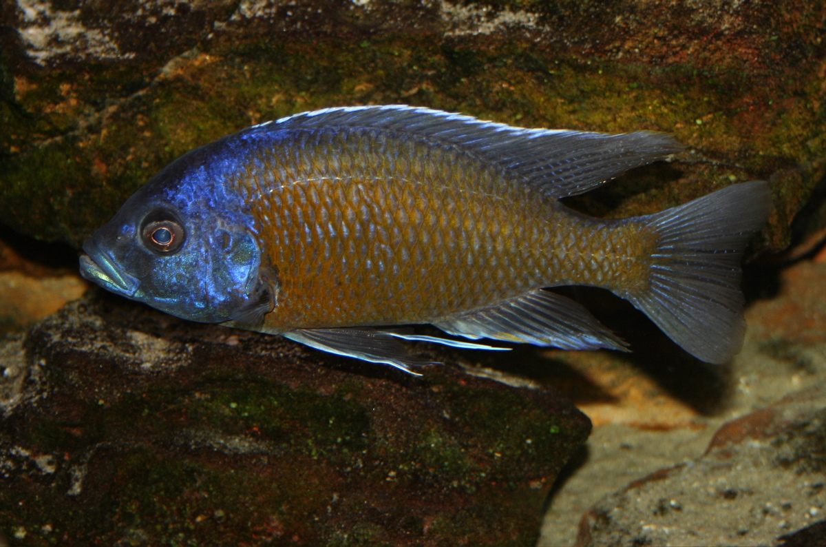 Copadichromis borleyi from Kadango, Lake Malawi. Photo: David Midgley from the aquarium of Glenn Barrett